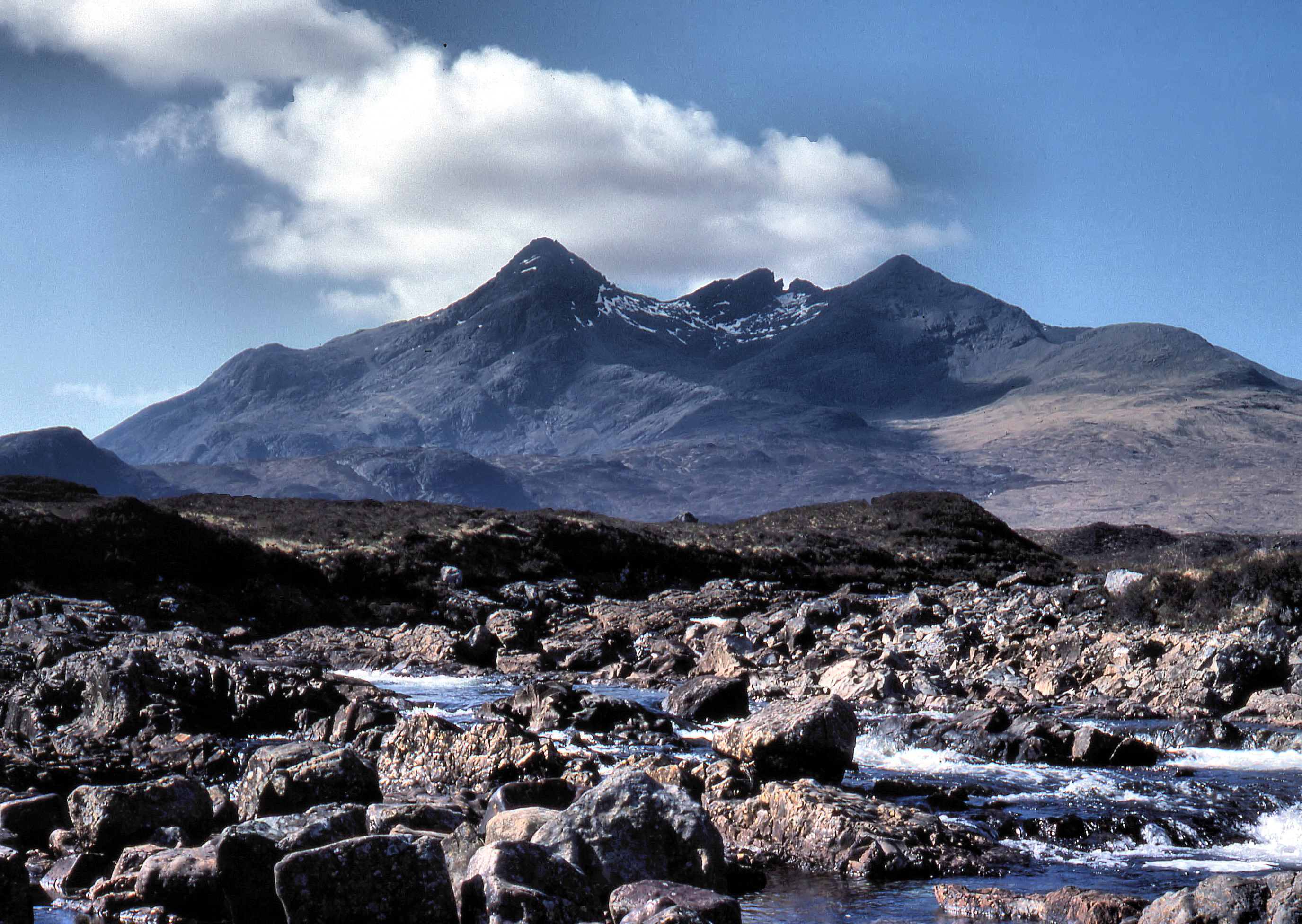 Sgurr nan Gillean in the Cuillin, Isle of Skye, Scotland.